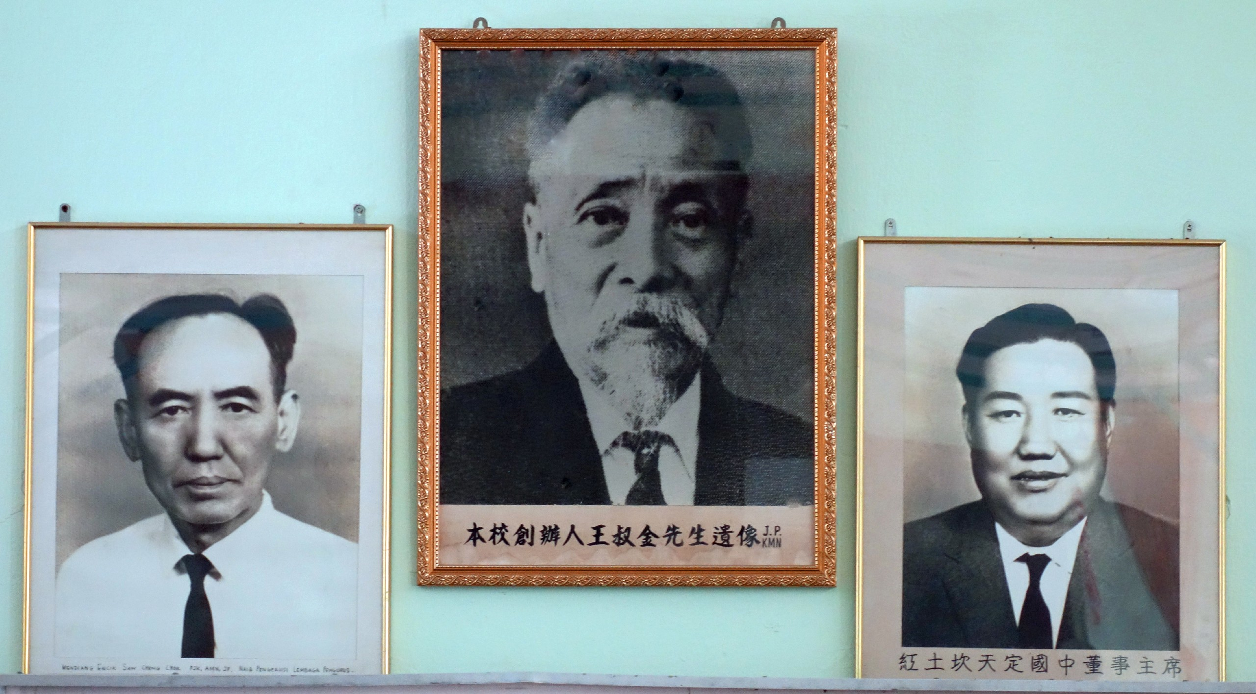 Dindings High School, Photo of Seok Kim (centre) in Lee Kong Chian Hall; Saw Cheng Chor, left; Ng Kuok Thai, right. Source: Book: No Other Way Out - A Biography of Ong Seok Kim. PJ, Malaysia; Authors: Wang Jianshi, Ong Eng-Joo; Publisher: Strategic Information and Research Development Centre, 2013; Site